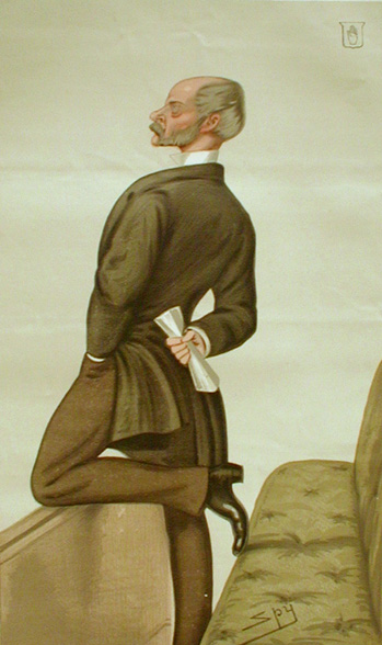 Caricature of Sir Henry Havelock-Allan, 1st Baronet. Caption read "The soldier who couldn't draw his sword".